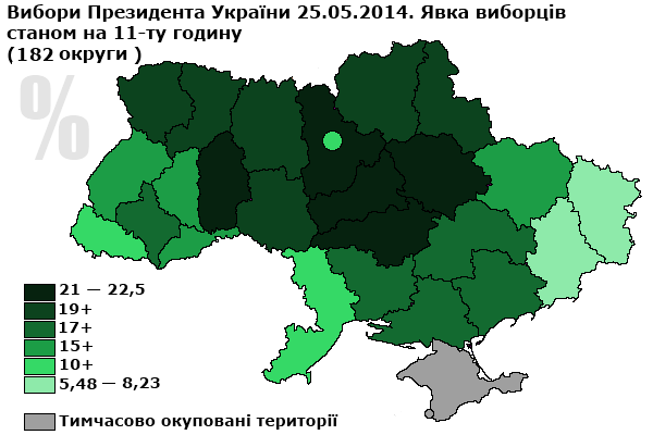 Turnout on Ukrainian presidental election 25/05/2014 on 11:00